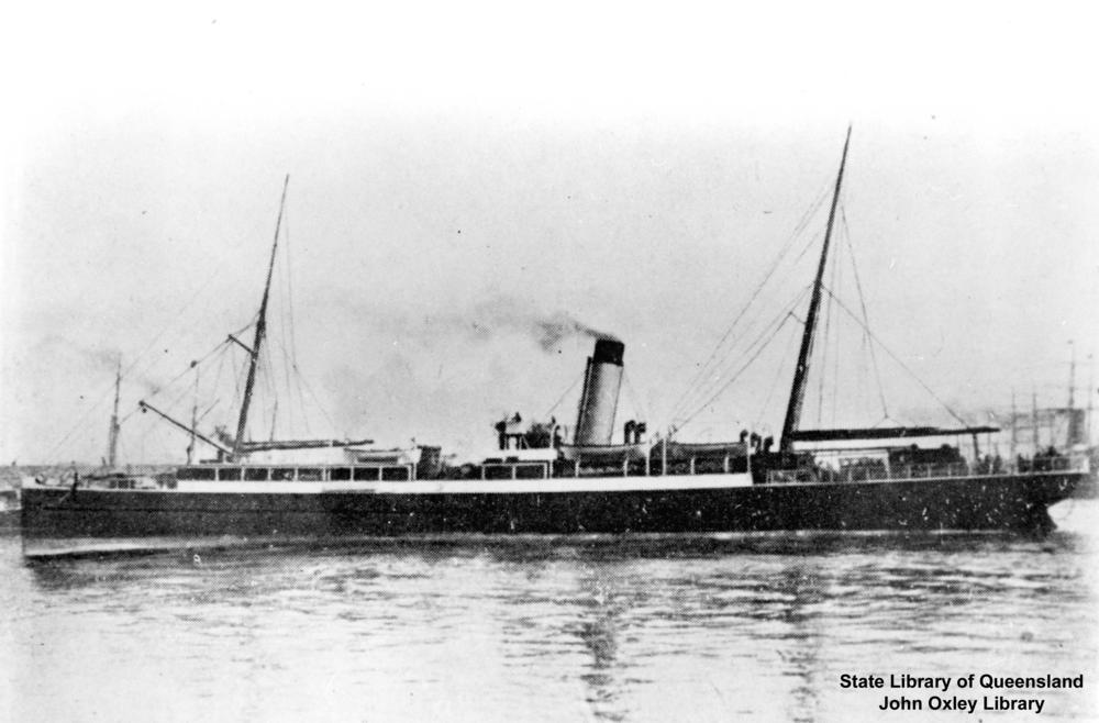 Adelaide (ship) Built in 1883, Glasgow. 1711 gross tons. Owned by Adelaide S. S. Co. Sold in 1906 to Eastern Buyers, and renamed Ho Fung. (Description supplied with photograph).